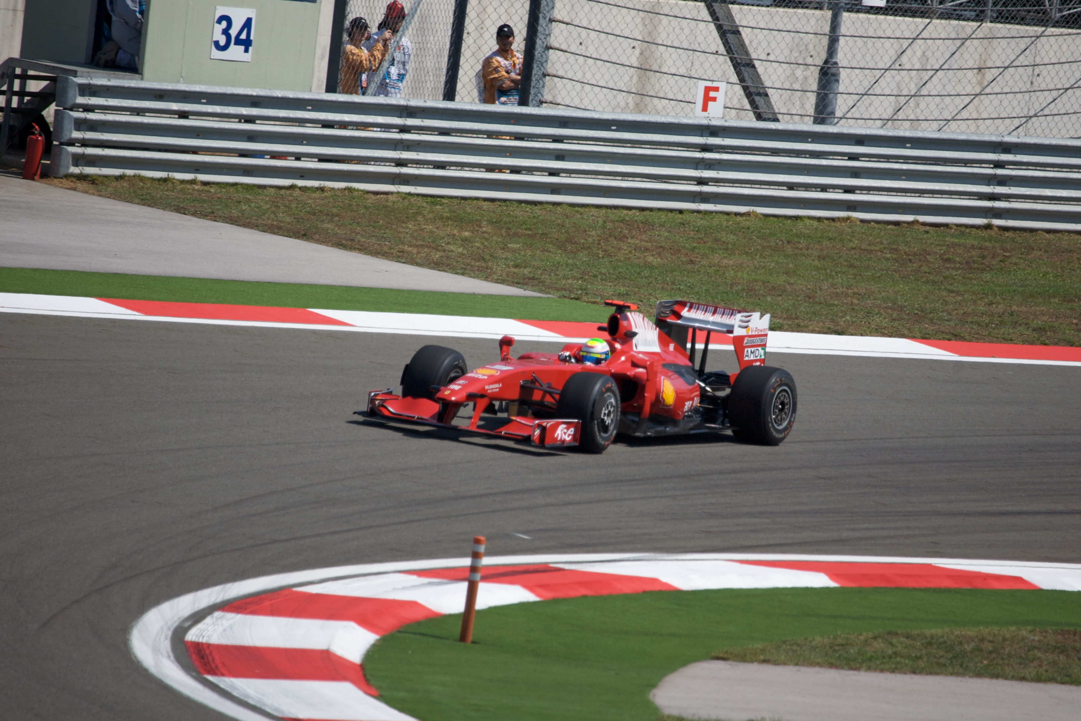 Felipe Massa driving for Scuderia Ferrari at the 2009 Turkish Grand Prix.